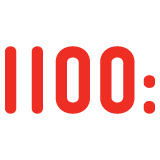 Official logo for 1100 Architect, a New York and Frankfurt-based architecture firm.